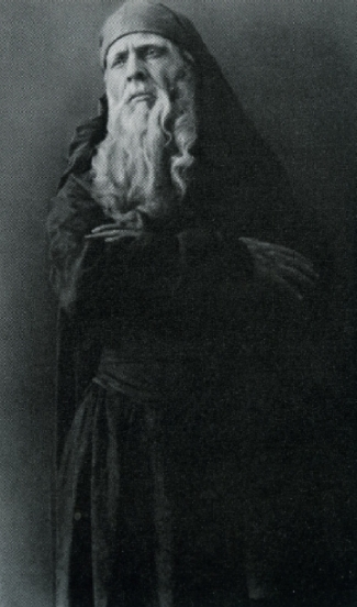 Fyodor Shalyapin as Dosifey in Khovanshchina, 1897